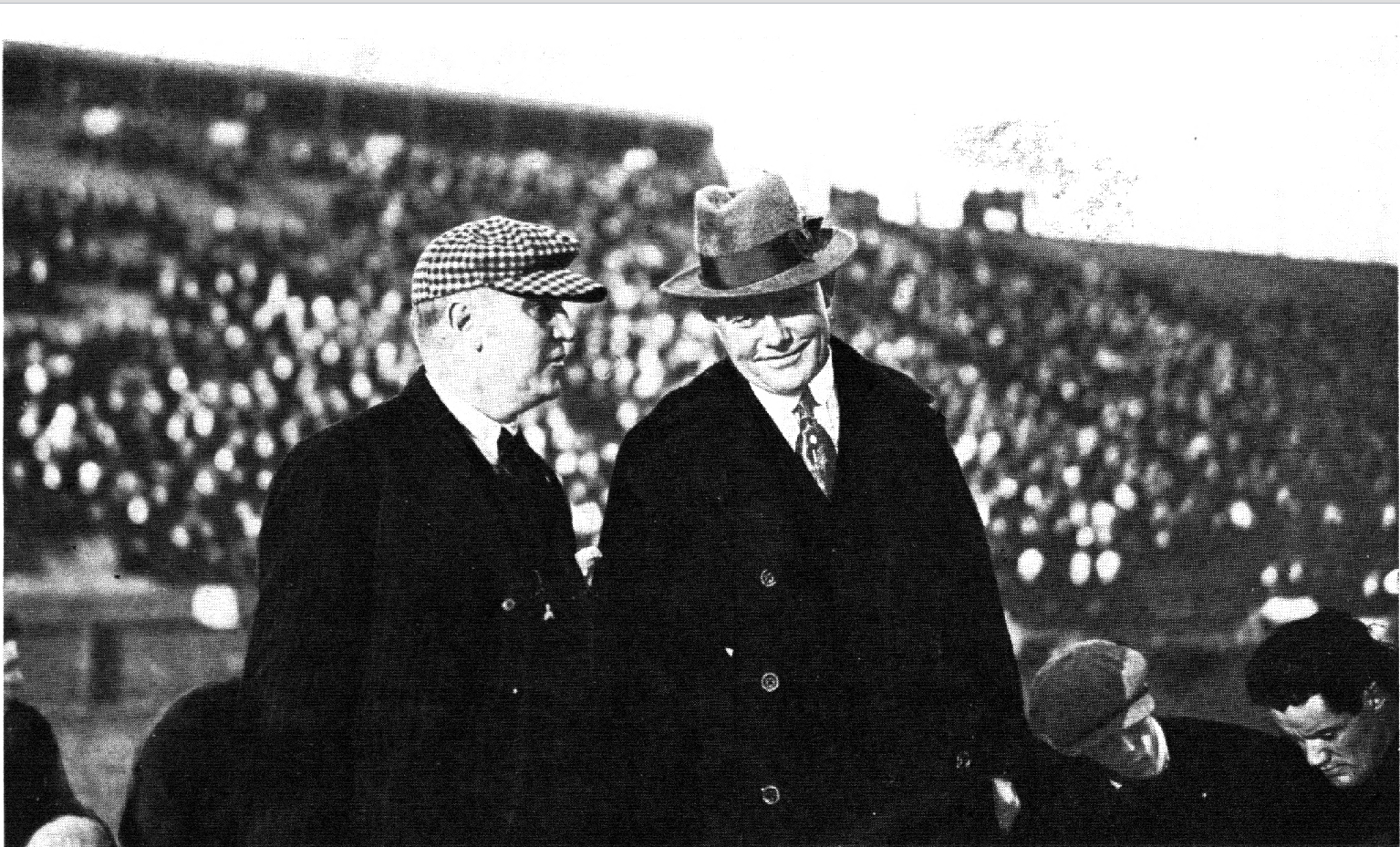 Photograph of University of Michigan football team trainer Harry Tuthill and head coach Fielding H. Yost, 1917